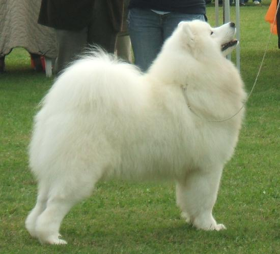 Samoyed